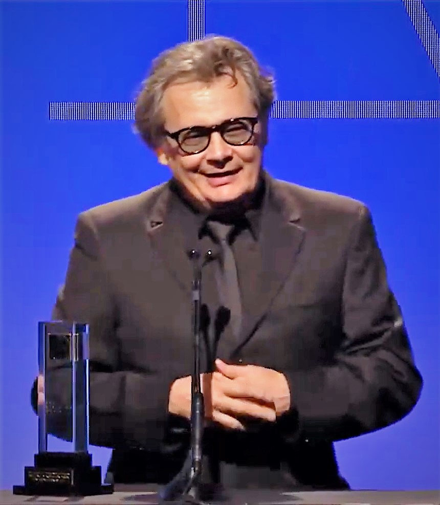 Art Directors Guild 18th Award Show Chapter 24 June Squibb June Squibb presents the award for Contemporary Feature Film to the winner Production Designer K.K. Barrett for HER